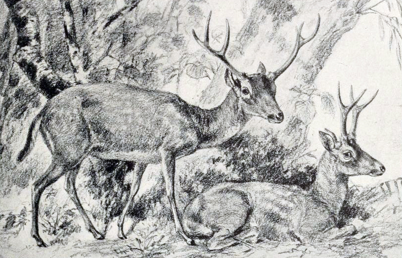 Crop of file in filename